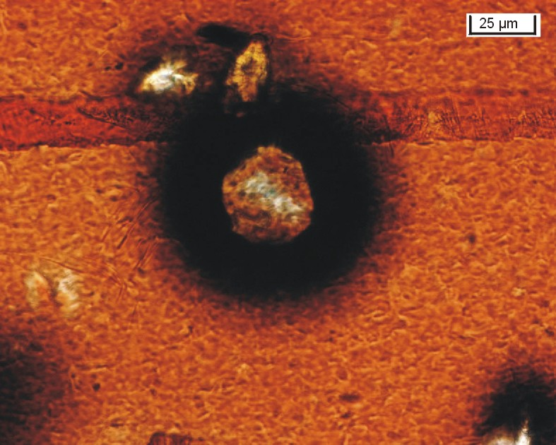 zircon in a biotite matrix